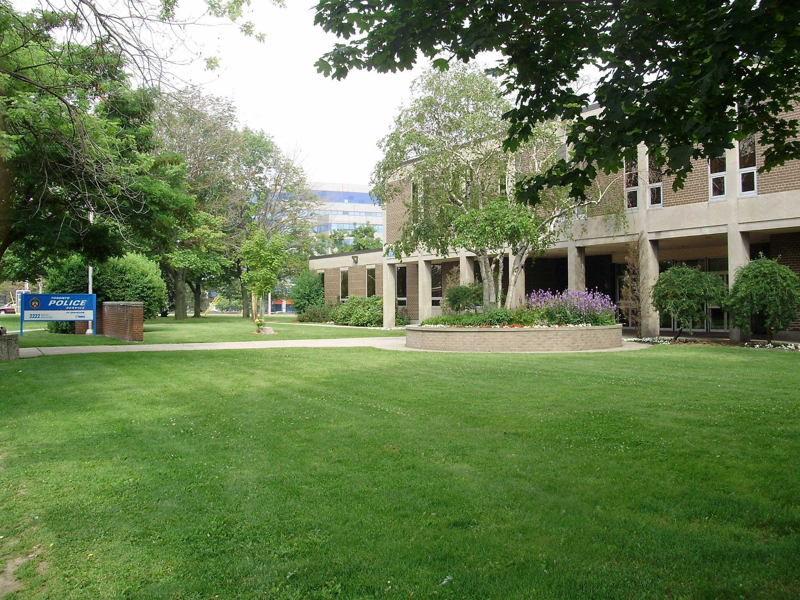 The headquarters of the Toronto Police Service's 41 Division, located on Eglinton Avenue East in Scarborough, Canada.